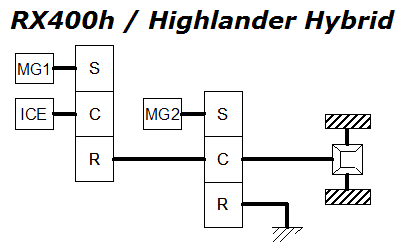 Created based on publications (research articles and press releases) describing the Transmission of the RX400h in detail